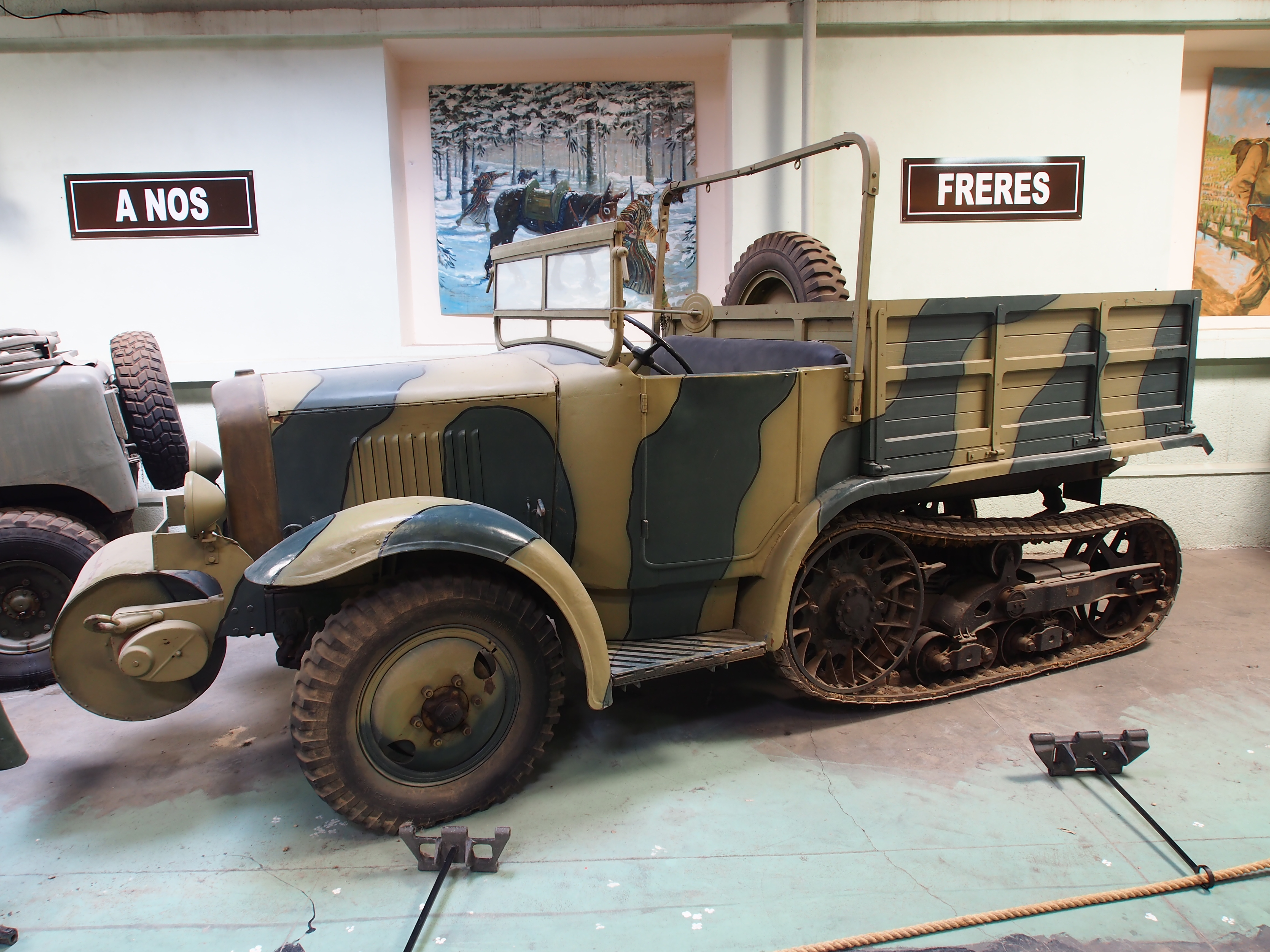 Photographed in the Musée des Blindés, France.